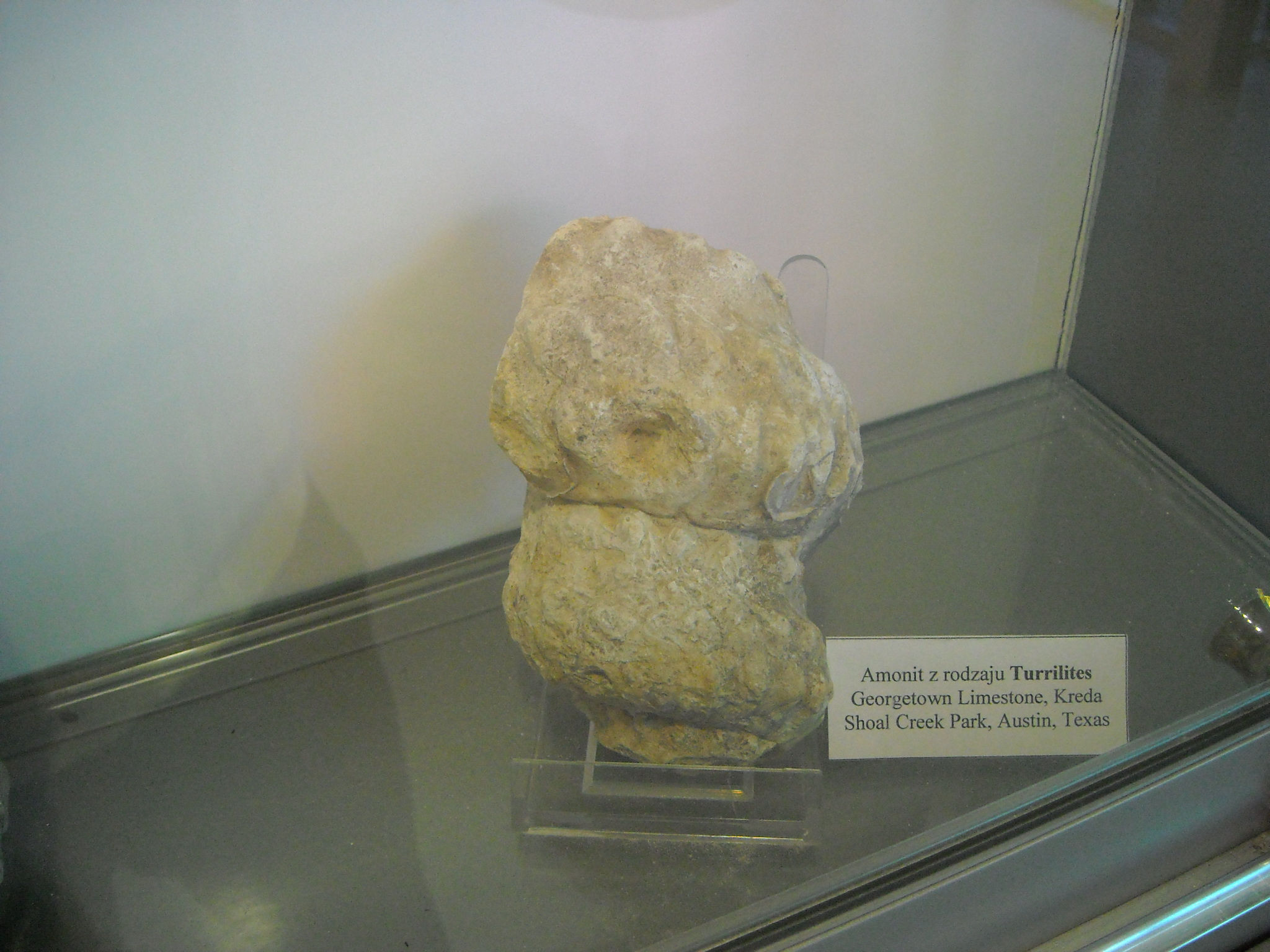 Turrilites - ammonite (Turrilitidae); This specimen comes from the Cretaceous of Texas (Austin).